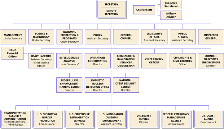 Organizational chart of the United States Department of Homeland Security